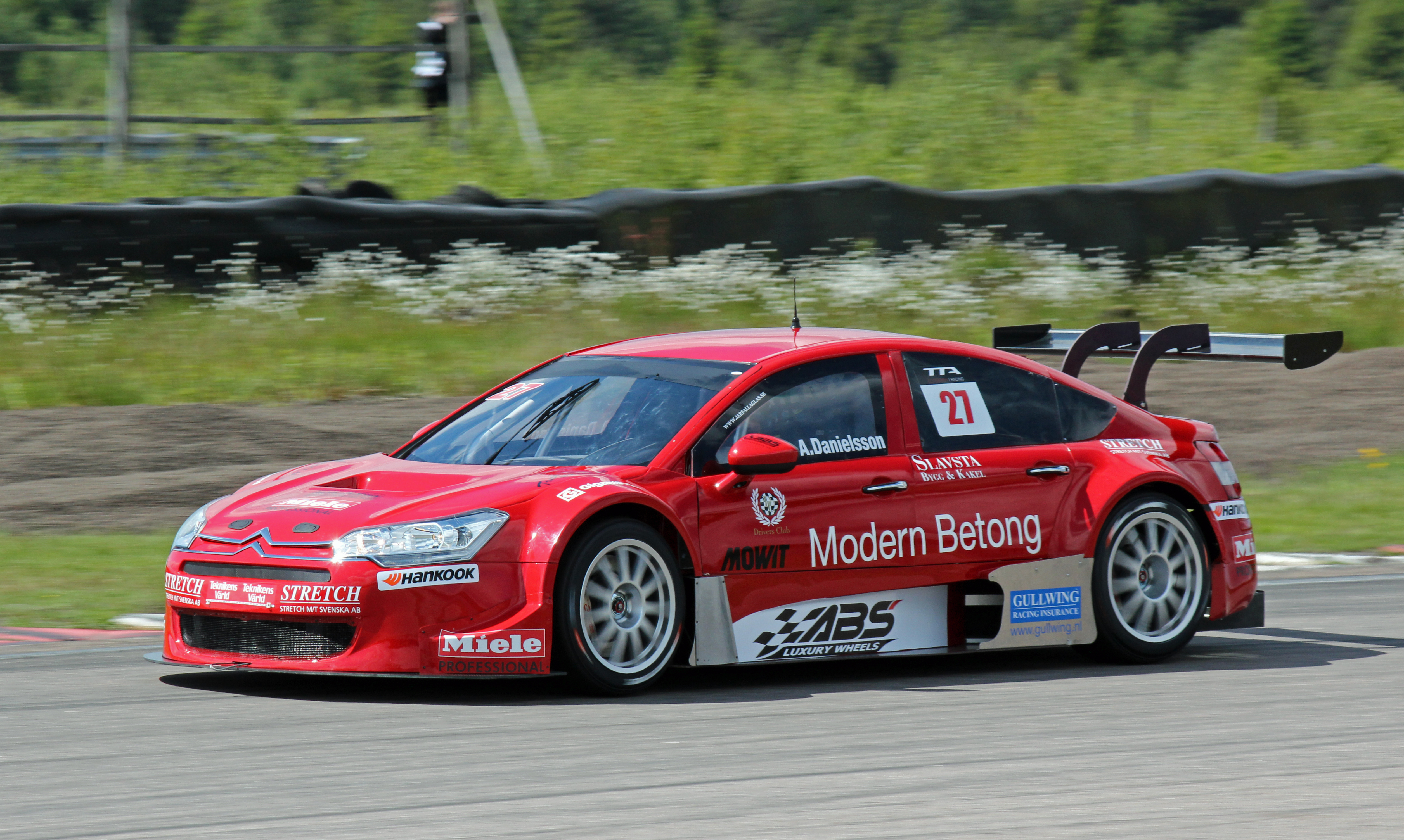 Alexander "Alx" Danielsson in his Citroën C5 Solution-F for Brovallen Design in TTA – Racing Elite League at Anderstorp Raceway in 2012.